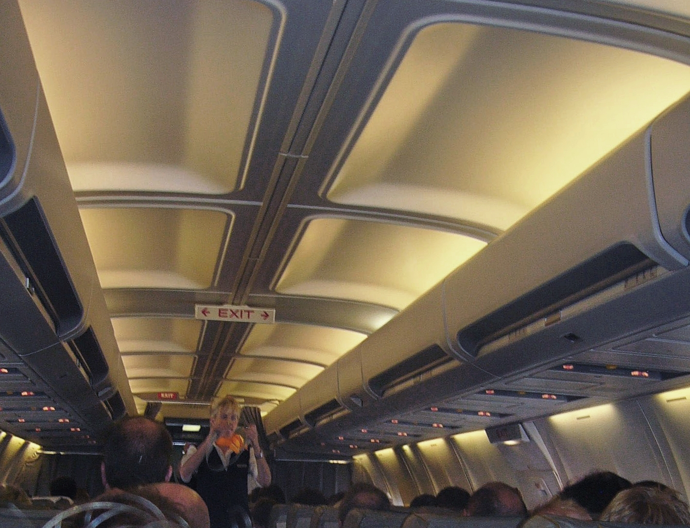 In-flight safety demonstration on board a Lufthansa Airbus A320 aircraft showing how to use a oxygen mask.